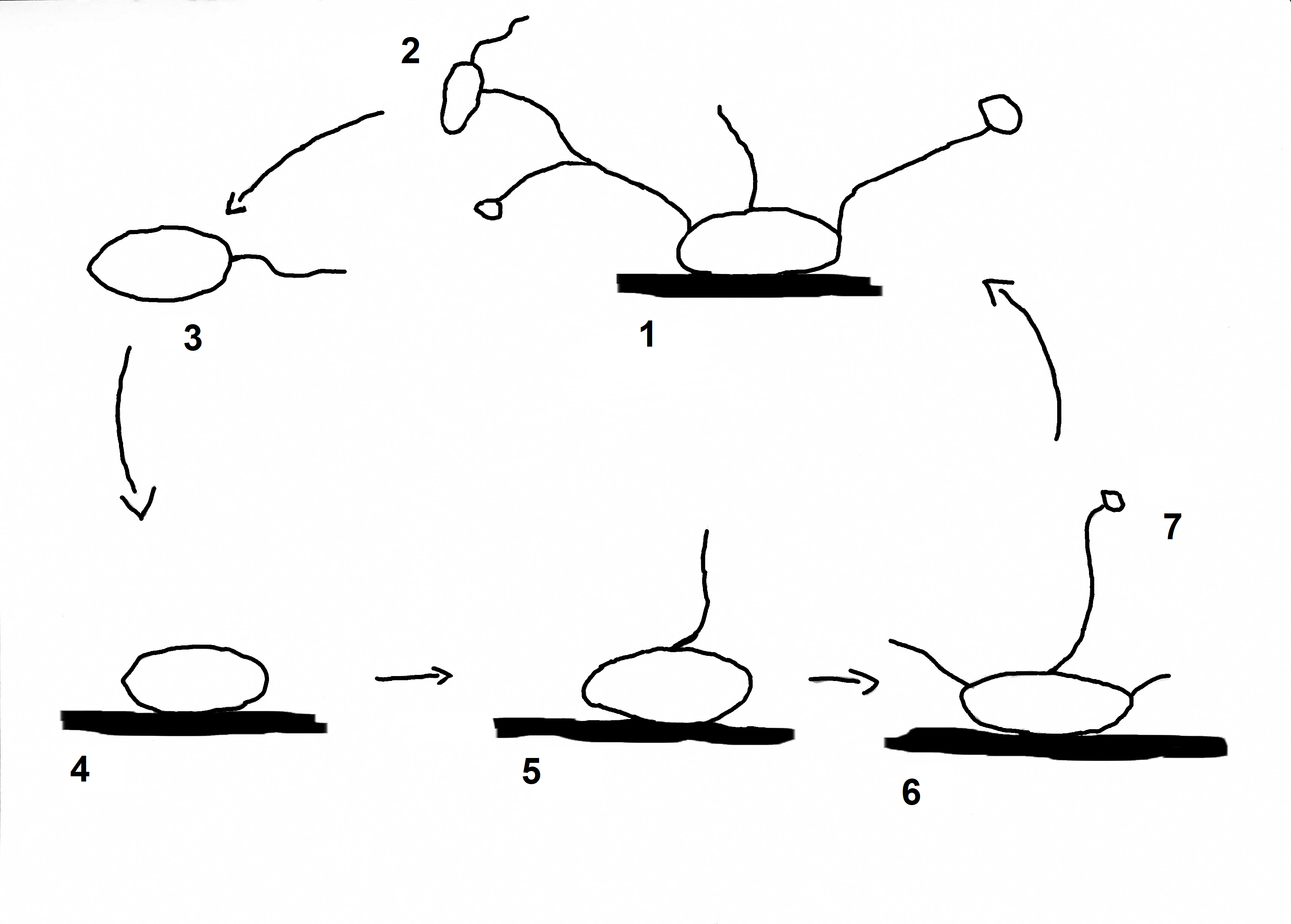 1. mother cell with hyphae and buds 2. bud 3. swarmer 4. cell attaching to solid surface 5. beginning formation of hyphae 5. mother cell with hyphae and beginning bud formation.